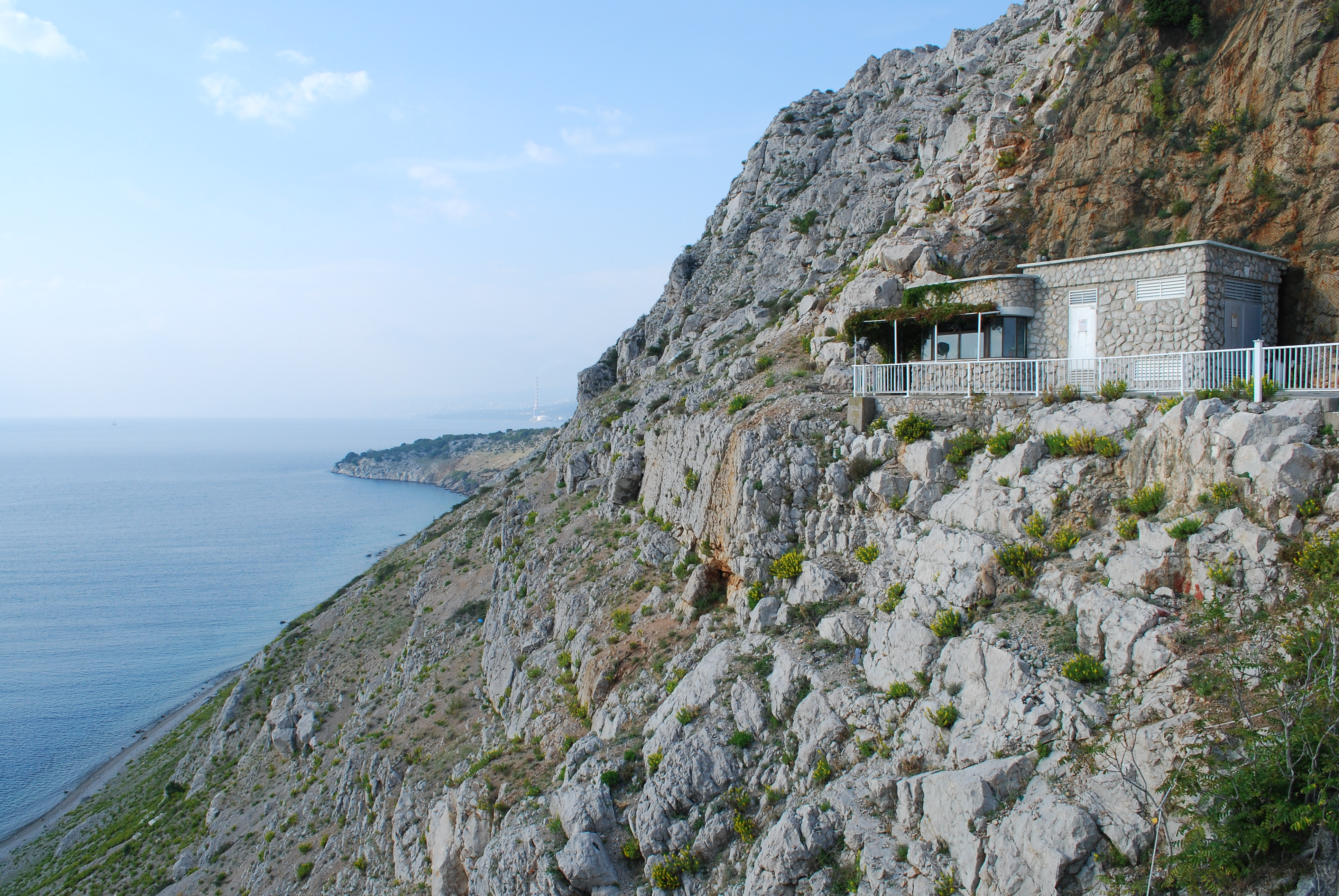 The house on the rock, the island of St Marko, Croatia.